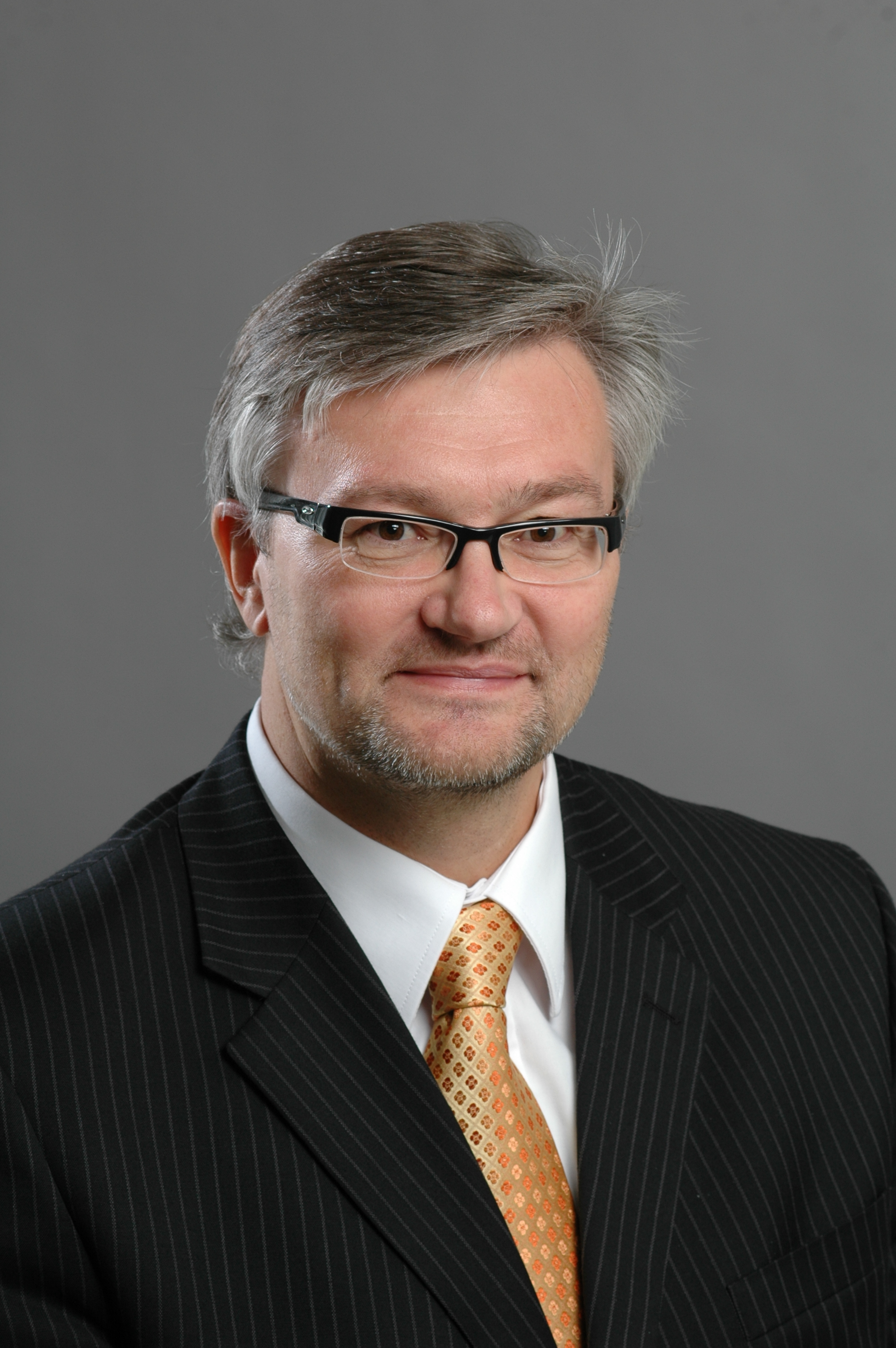 Deputy of the 9th Saeima Ainars Baštiks